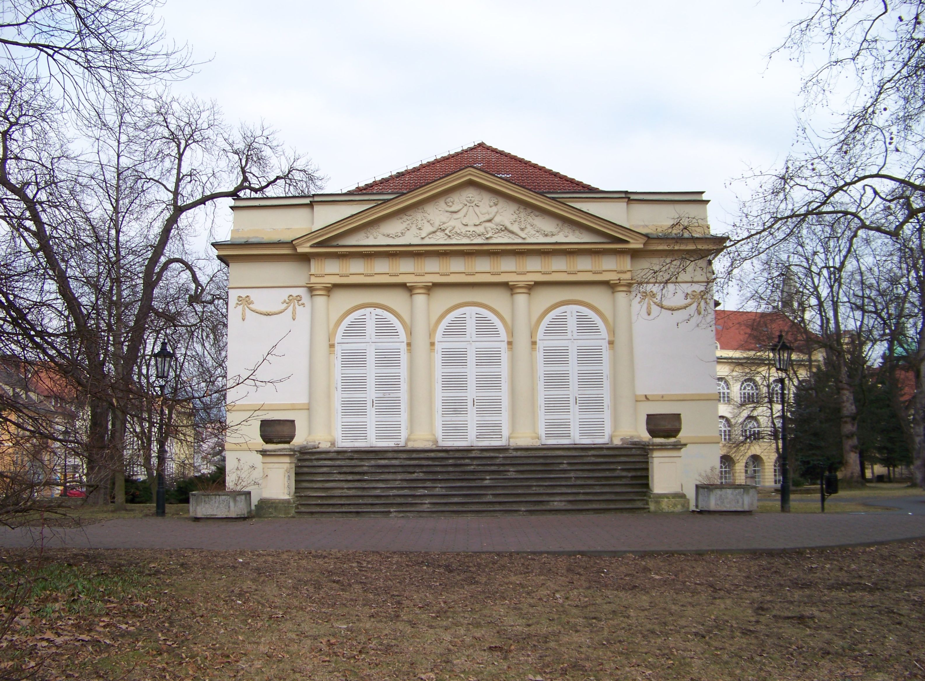 Teplice, Teplice District, Ústí nad Labem Region, the Czech Republic. The castle.